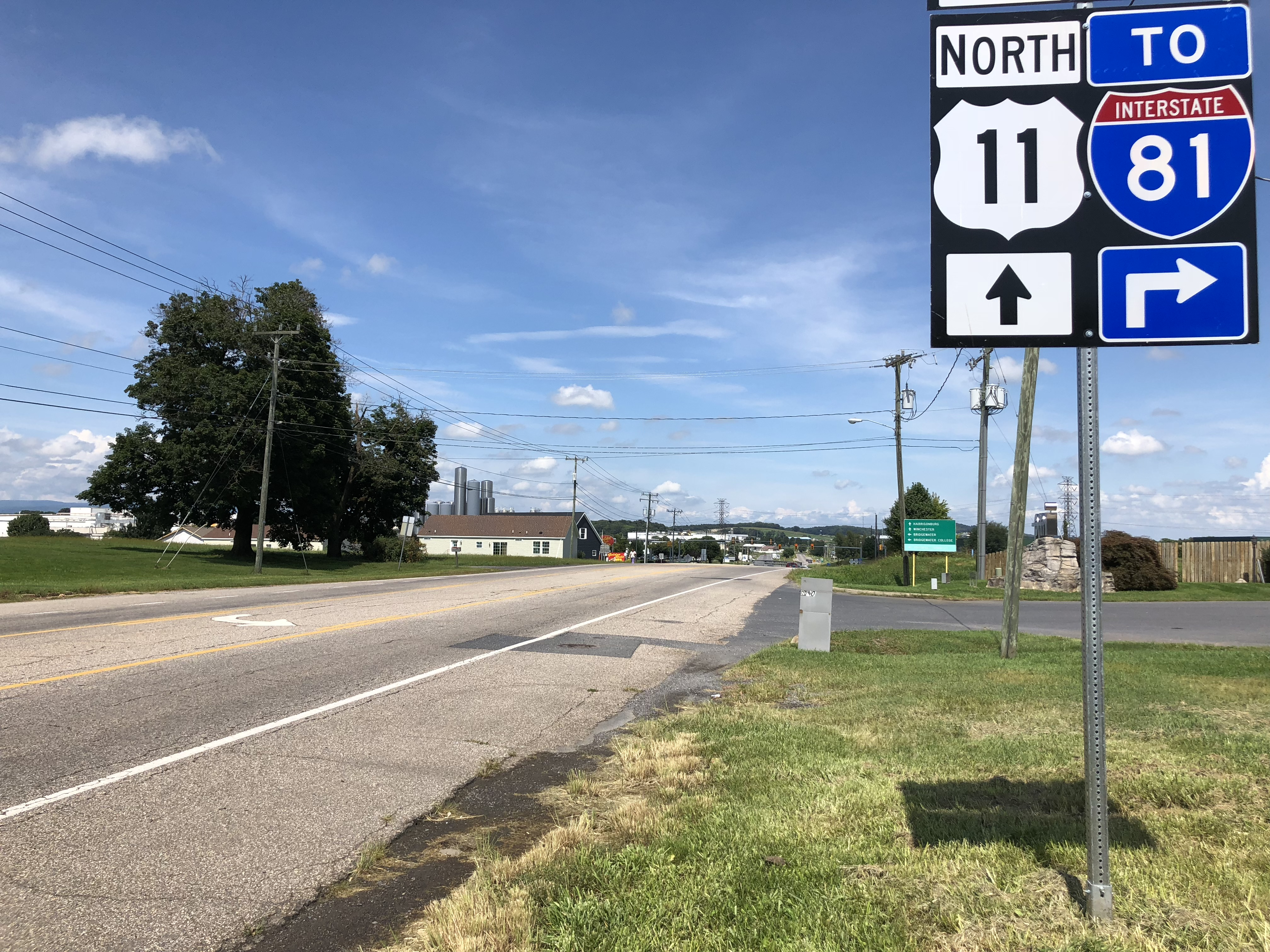 View north along U.S. Route 11 (Main Street) just north of Cantermill Lane in Mount Crawford, Rockingham County, Virginia